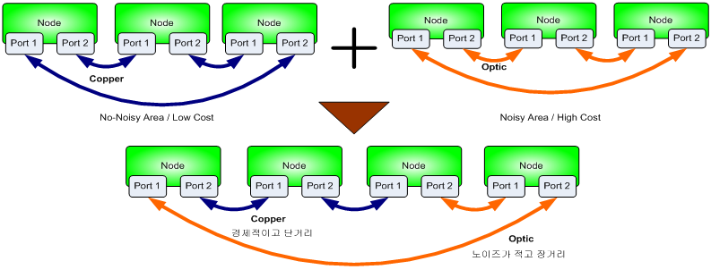 RAPIEnet